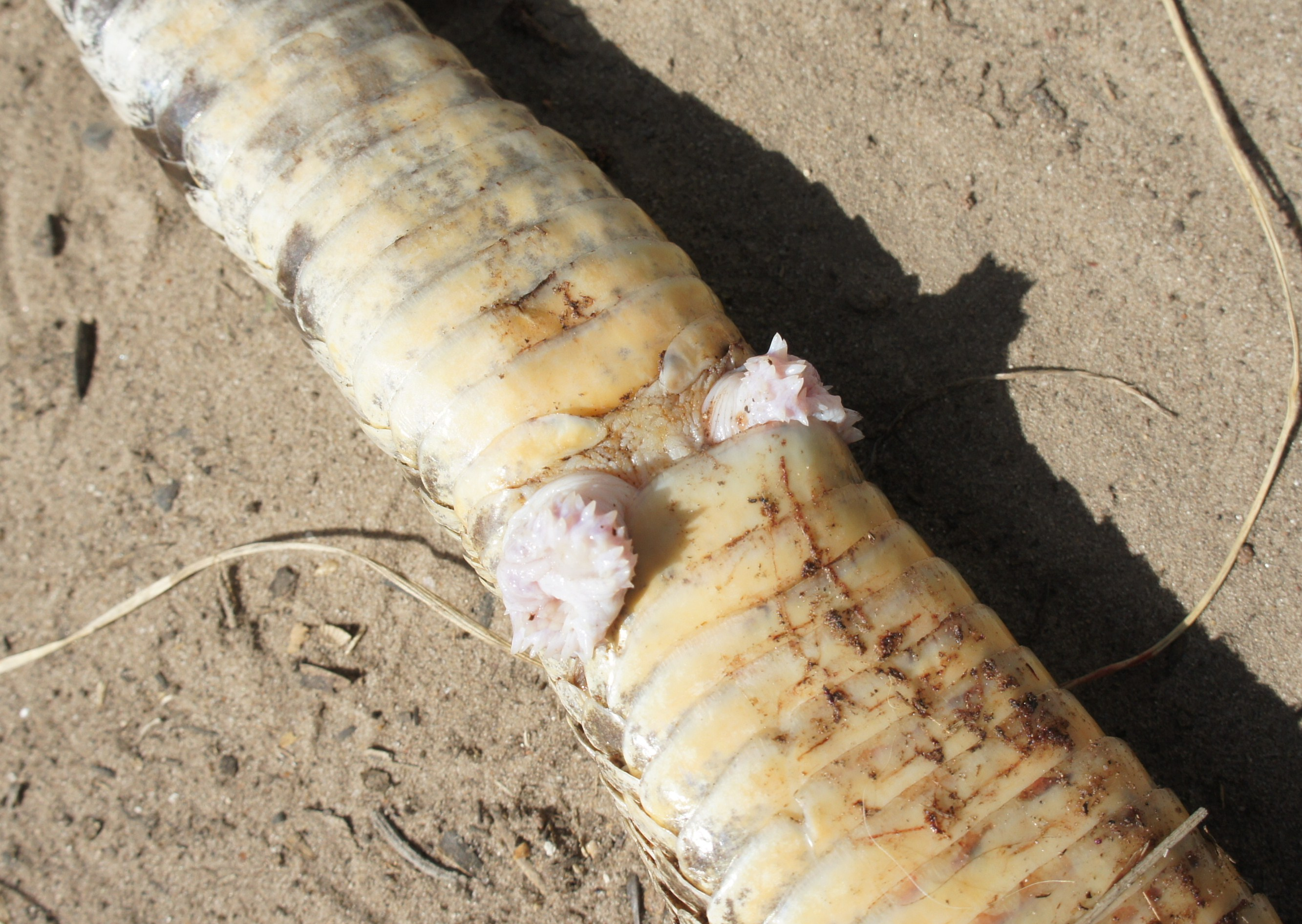 The hemipenes of a Western Diamondback Rattlesnake in Beeville, TX in July 2011